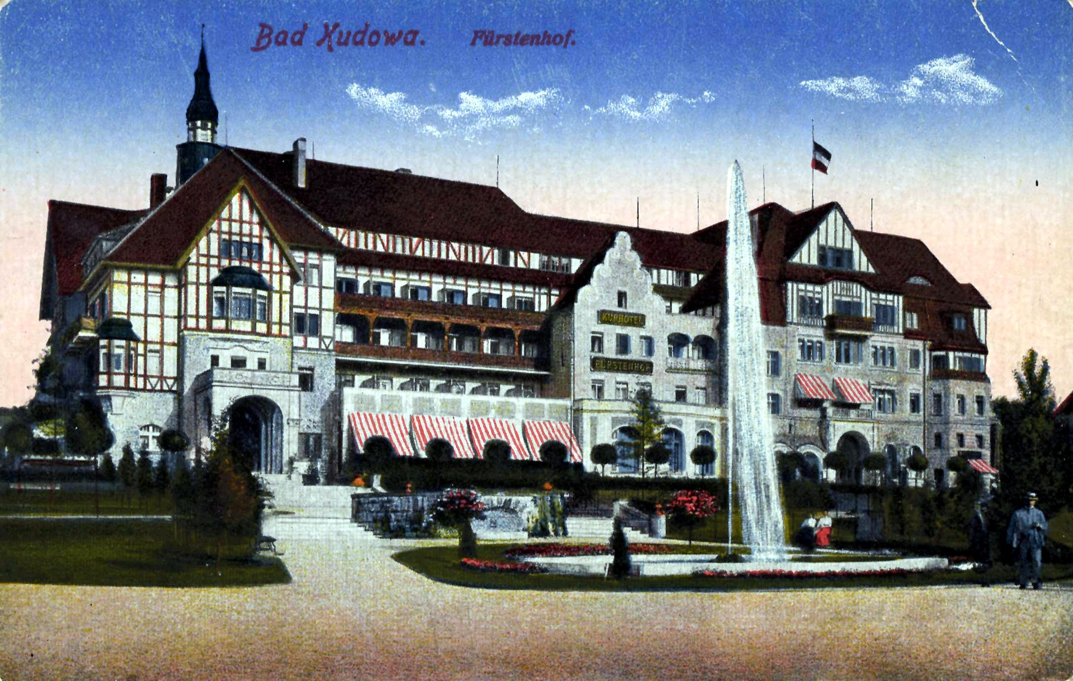 Hotel Polonia w Kudowie-Zdroju